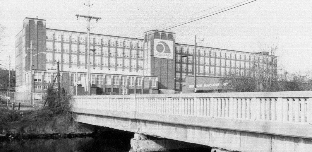 Former AMPAD facility in Holyoke, Massachusetts on Jackson Street, as seen in 1990.